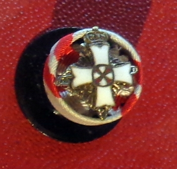 Order of Merit pro Merito Melitensi, rosette of Grand Officer, c.1930. Order of Malta. The exhibition of the Tallinn Museum of Orders of Knighthood, Estonia.